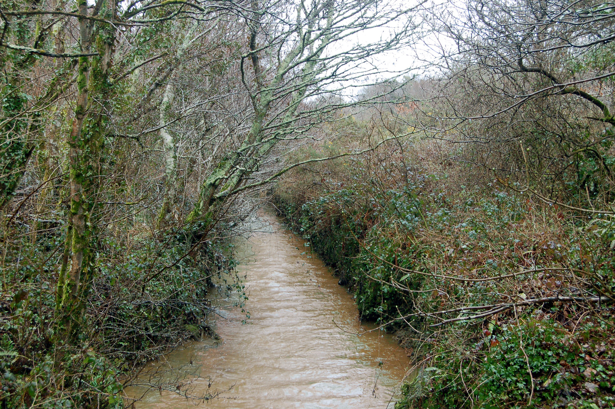 The Red River in Cornwall, United Kingdom, at Menadarva Mill near Cambourne